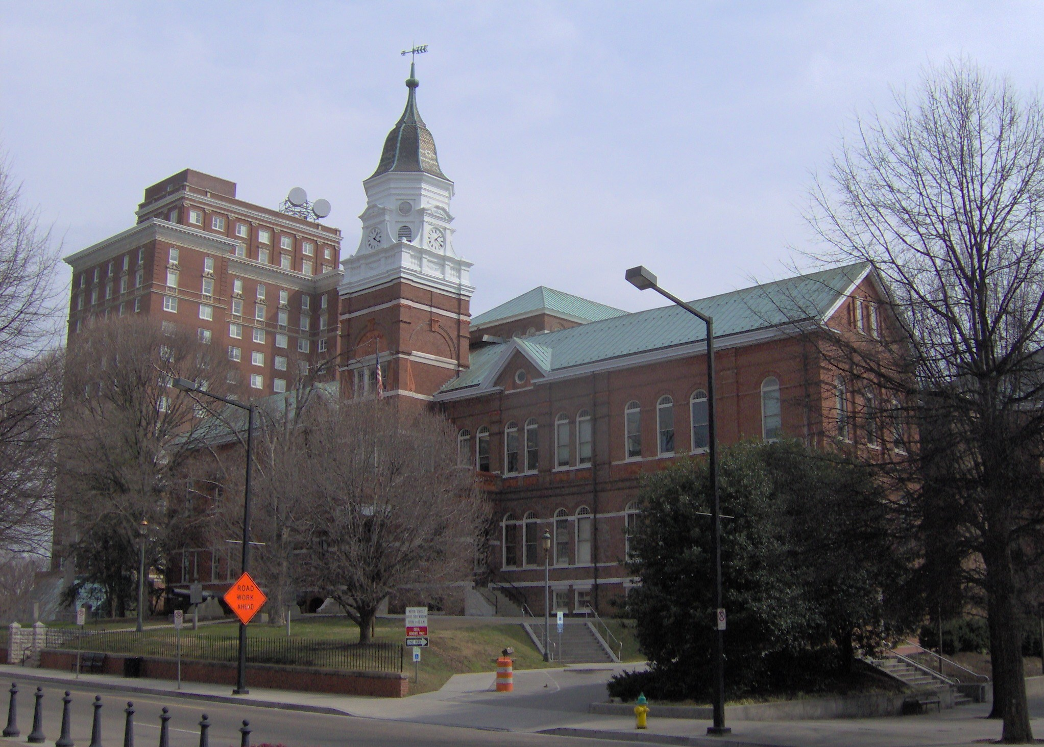 Knox County Courthouse at the junction of Main Street and Gay Street in downtown Knoxville, Tennessee, in the southeastern United States. The courthouse, the fourth for Knox County, was built in the late 1880s by architects Stephenson & Getaz. It was added to the U.S. National Register of Historic Places in 1973.